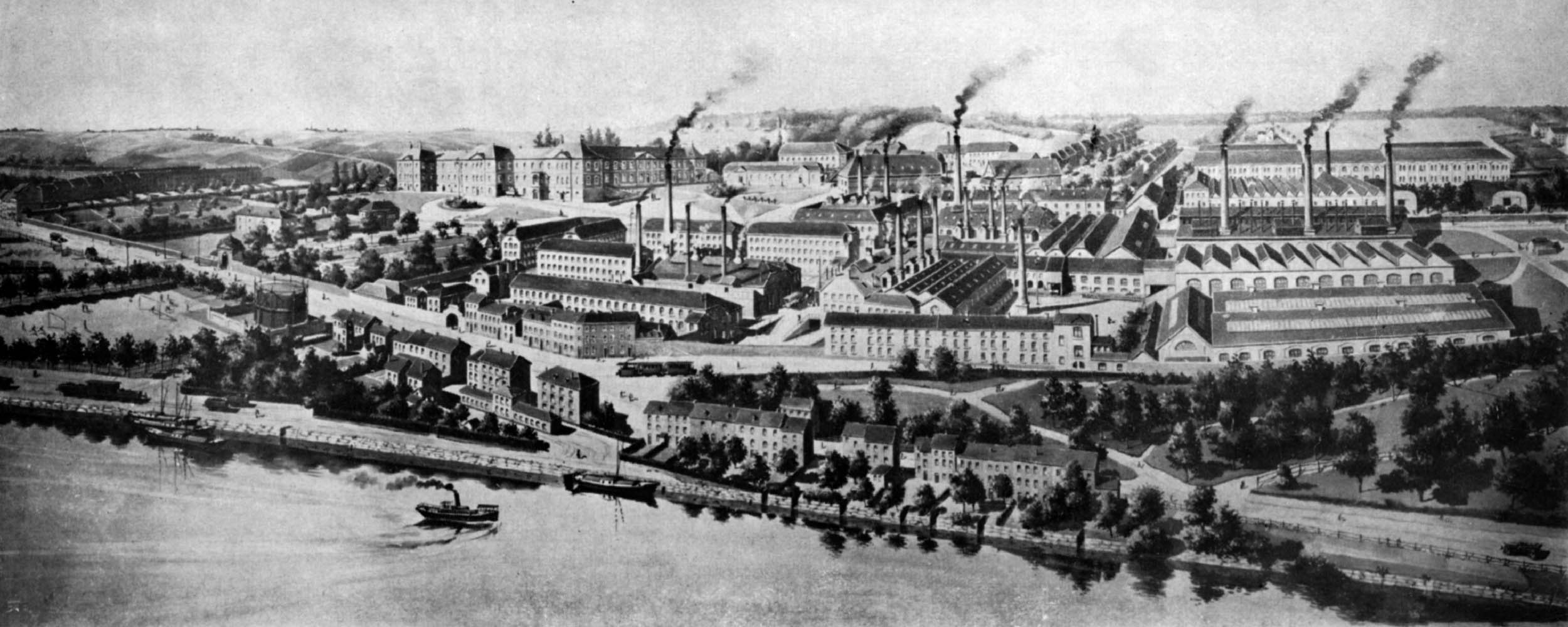 View of crystal and glass factories of Val-Saint-Lambert in Seraing, Belgium (drawing by unknown artist, probably for a business brochure,1926).